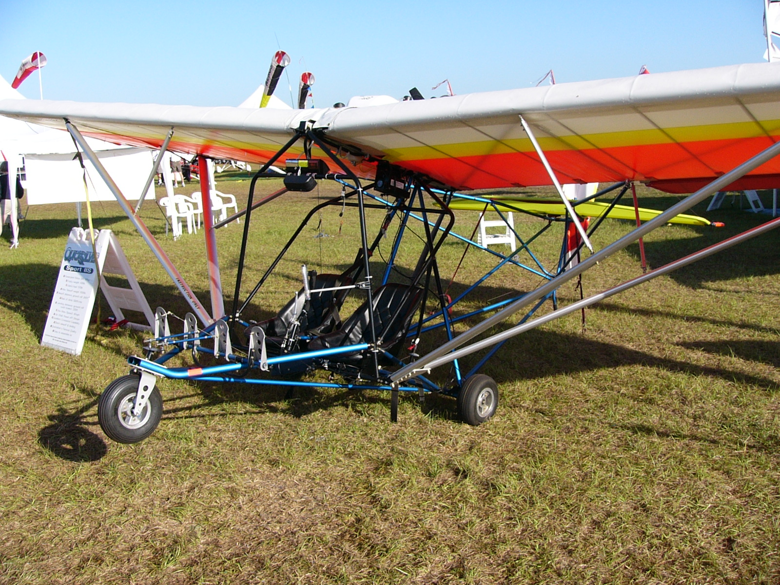 A Quicksilver 2S two seater at Sun 'n Fun 2004